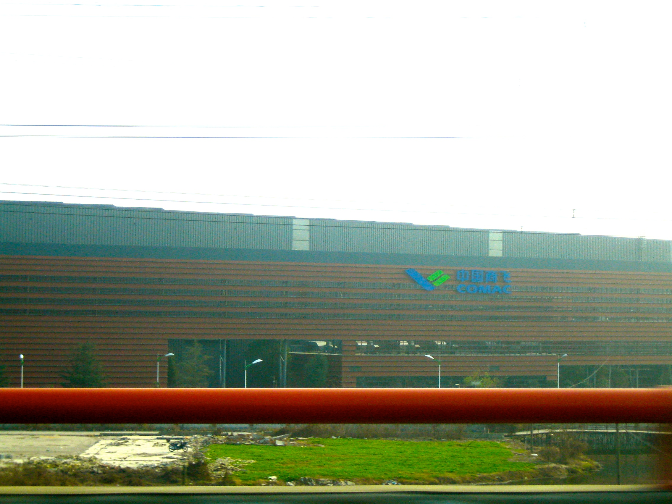 The Comac Factory in Shanghai.